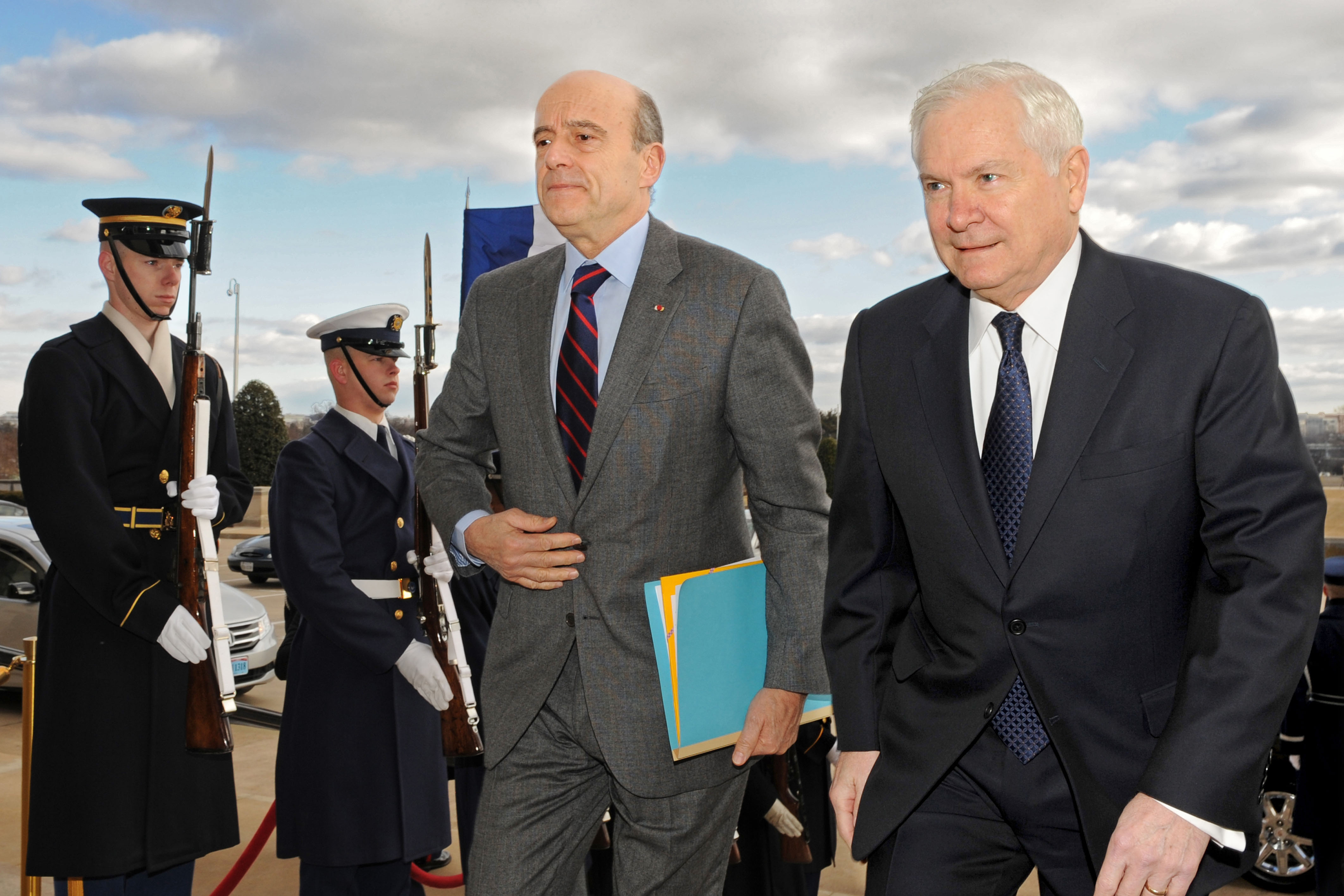 Secretary of Defense Robert M. Gates (left) escorts French Minister of Defense Alain Juppe through an honor cordon and into the Pentagon on Feb. 8, 2011. Gates and Juppe will hold security discussions on a broad range of topics including the increasing congestion in Earth orbit from multi-national space programs.